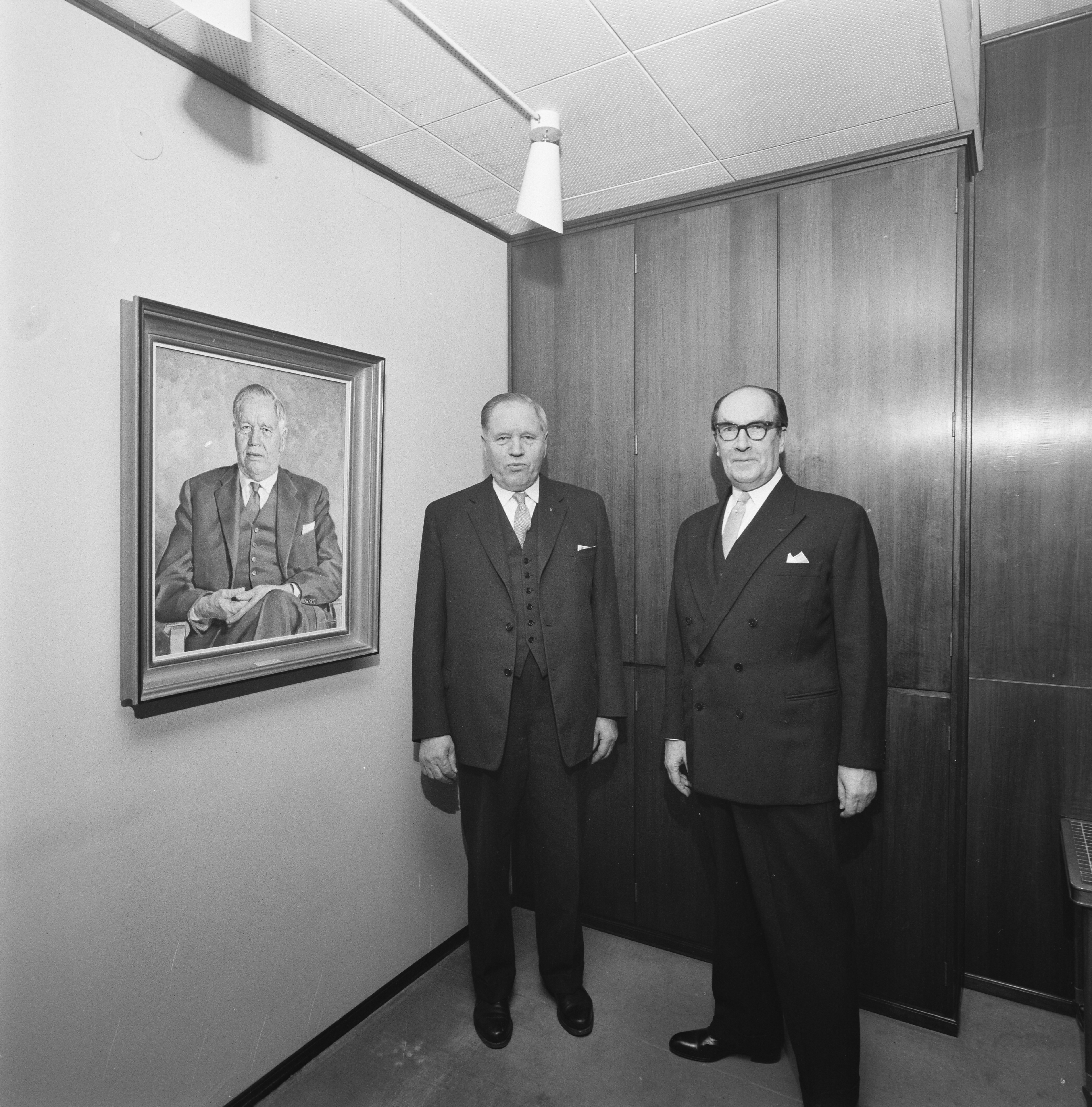 Photograph of the Finnish politician Eemil Luukka (1892–1970) and the Finnish painter Tauno Miesmaa (1891–1980) when Luukka’s portrait was revealed.